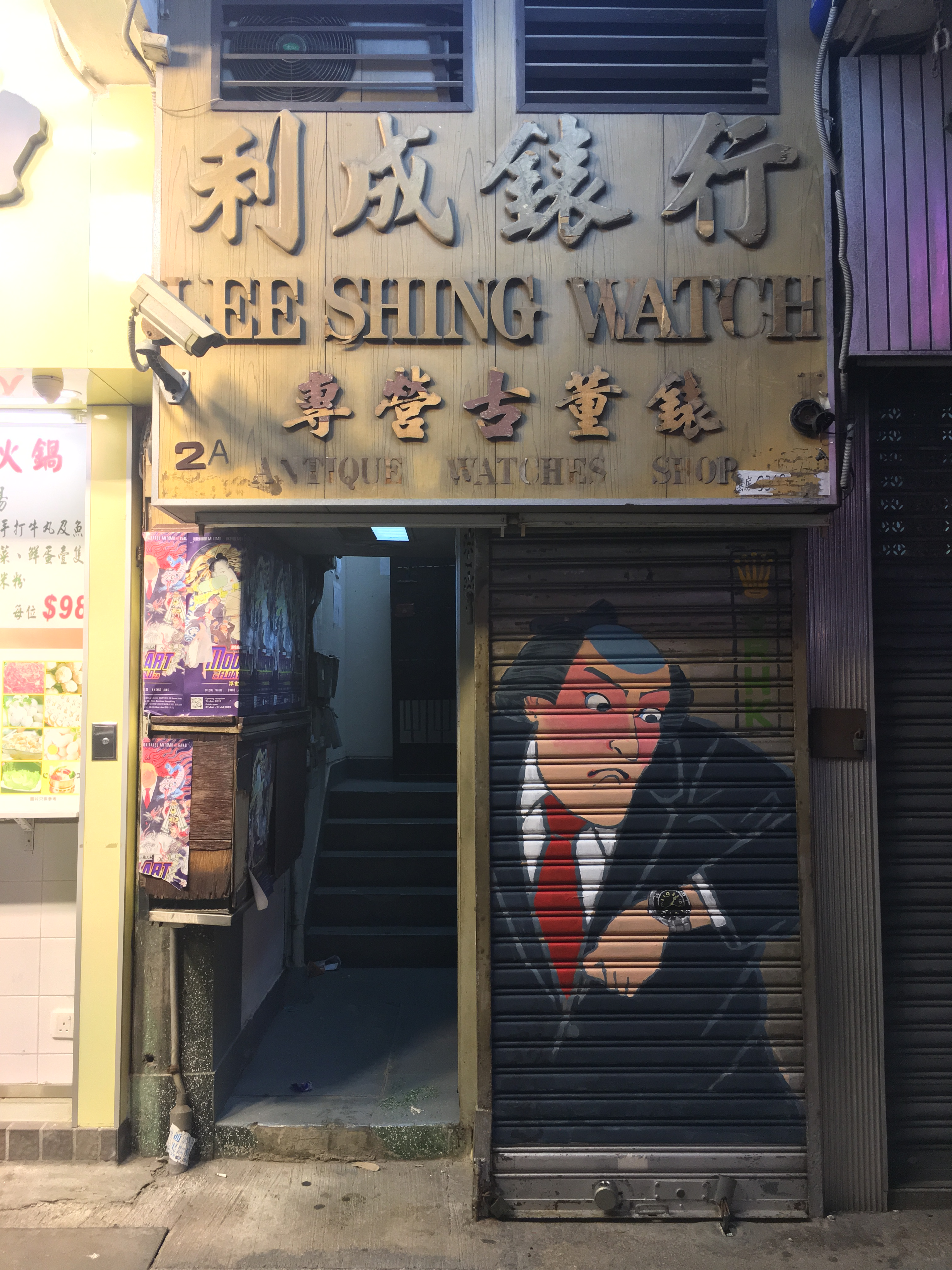 Lee Shing Watch is a store beneath the stairs of the Chinese tenement on Hau Wong Road in Kowloon City.